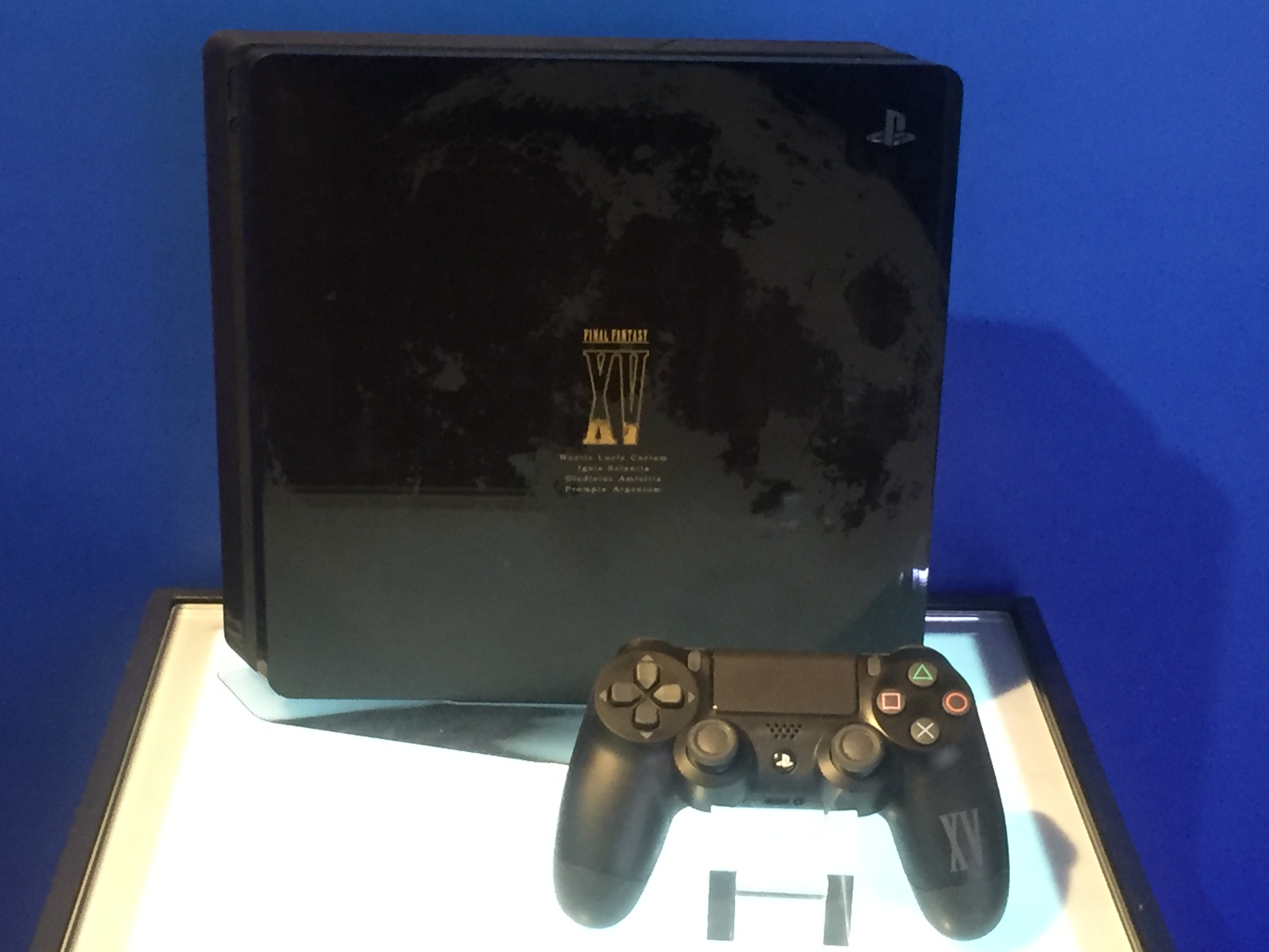 A PS4 console with the Final Fantasy XV insignia, unveiled on January 2017 at the Wan Chai Computer Centre in Hong Kong.